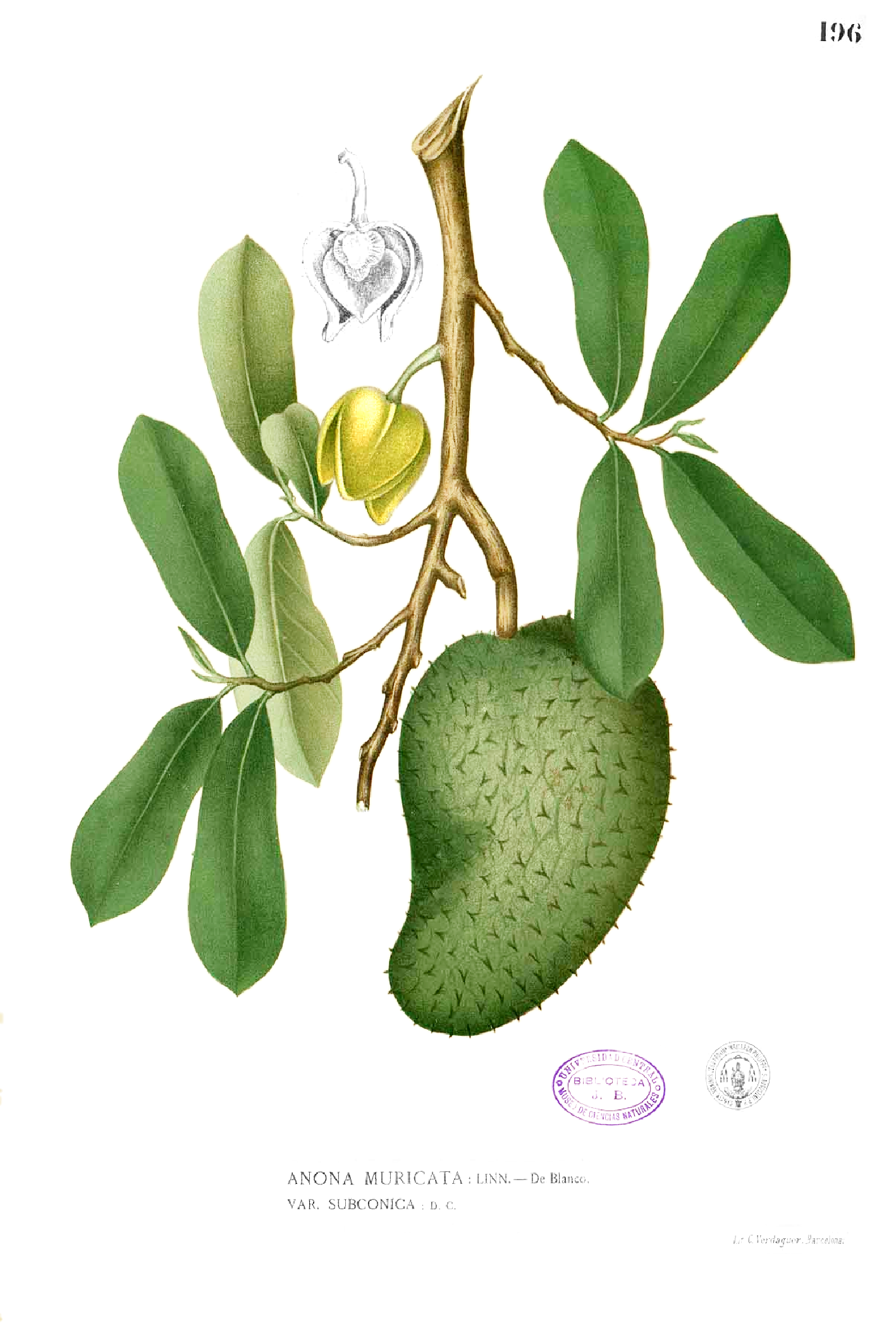 Plate from book